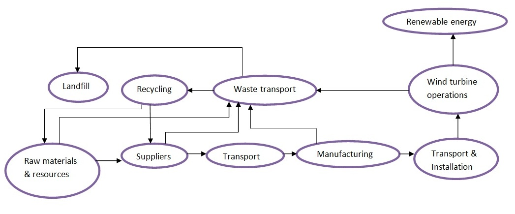 It shows the flow diagram of wind turbine plants or basic working of wind turbine plants